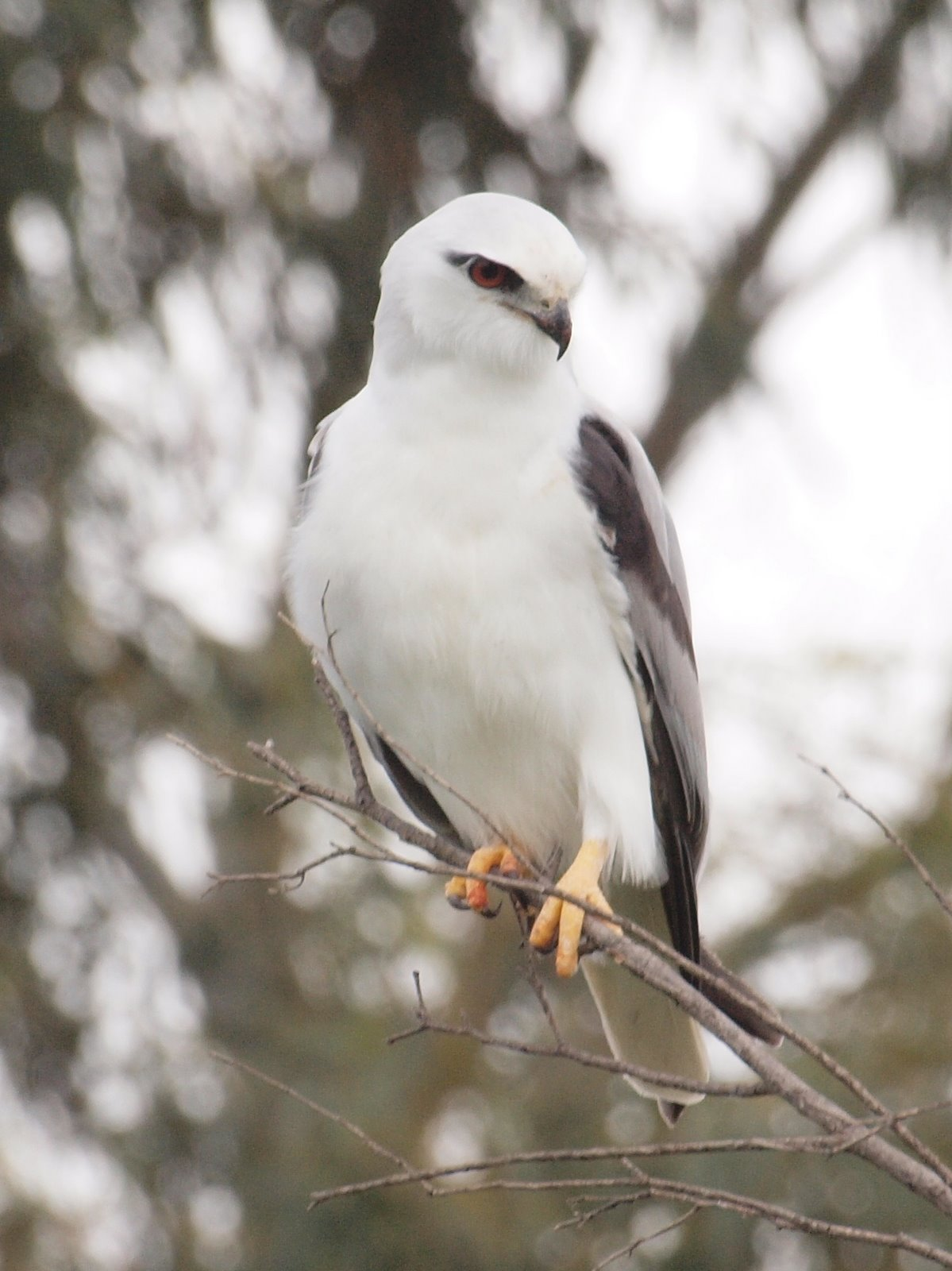 A Black-shouldered Kite in Canberra, Australia.